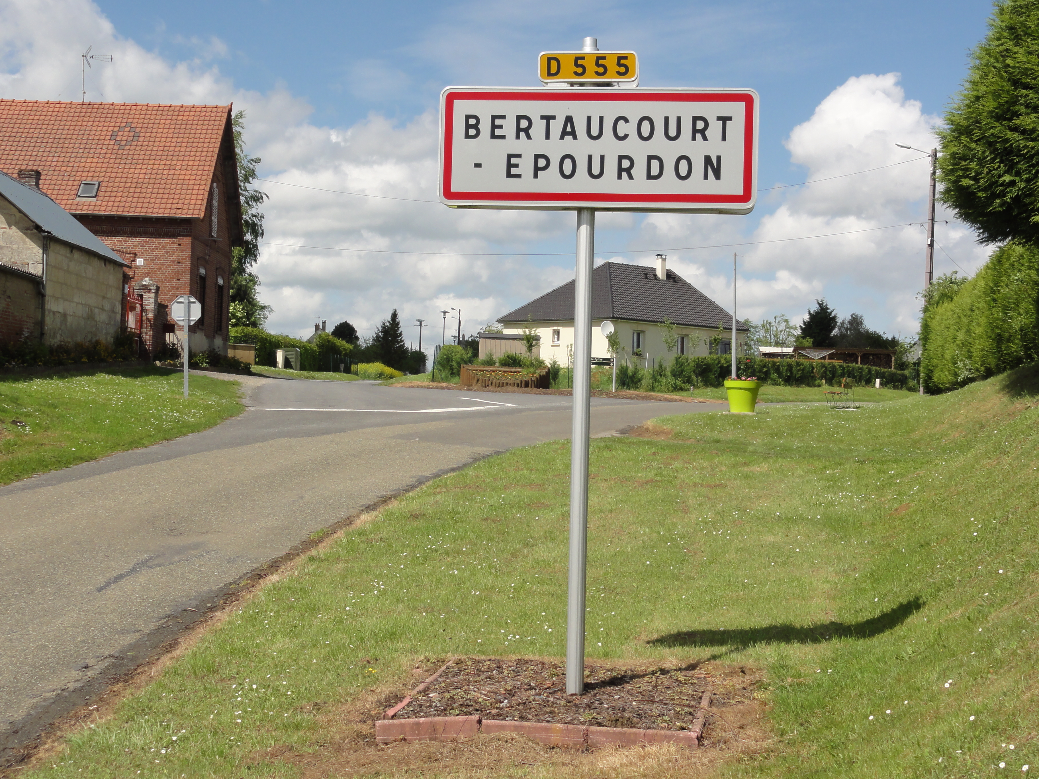 Bertaucourt-Epourdon (Aisne) city limit sign